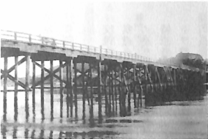 This is Kaimon bridge in Ibaraki prefecture, Japan.